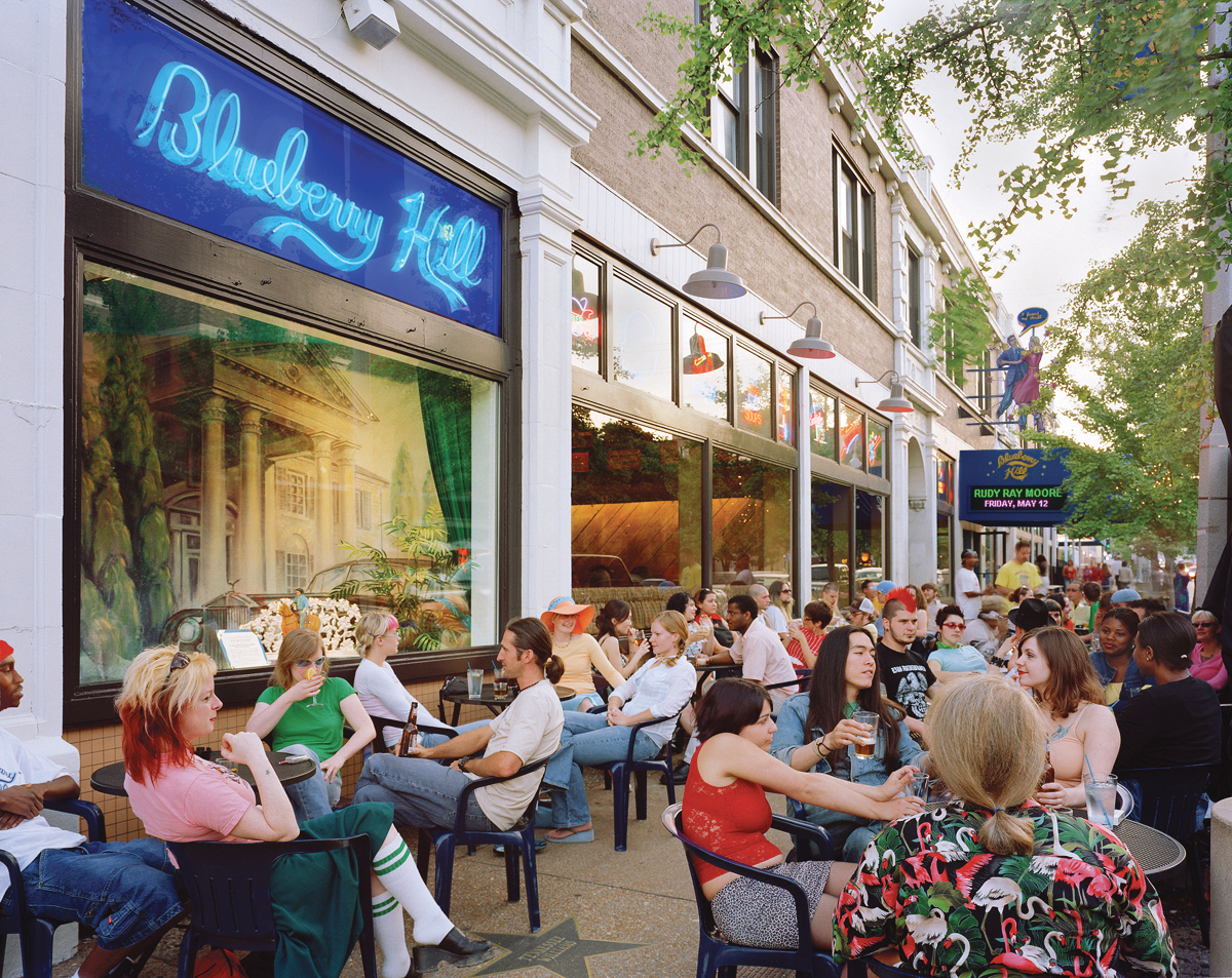 Blueberry Hill restaurant patio outdoors